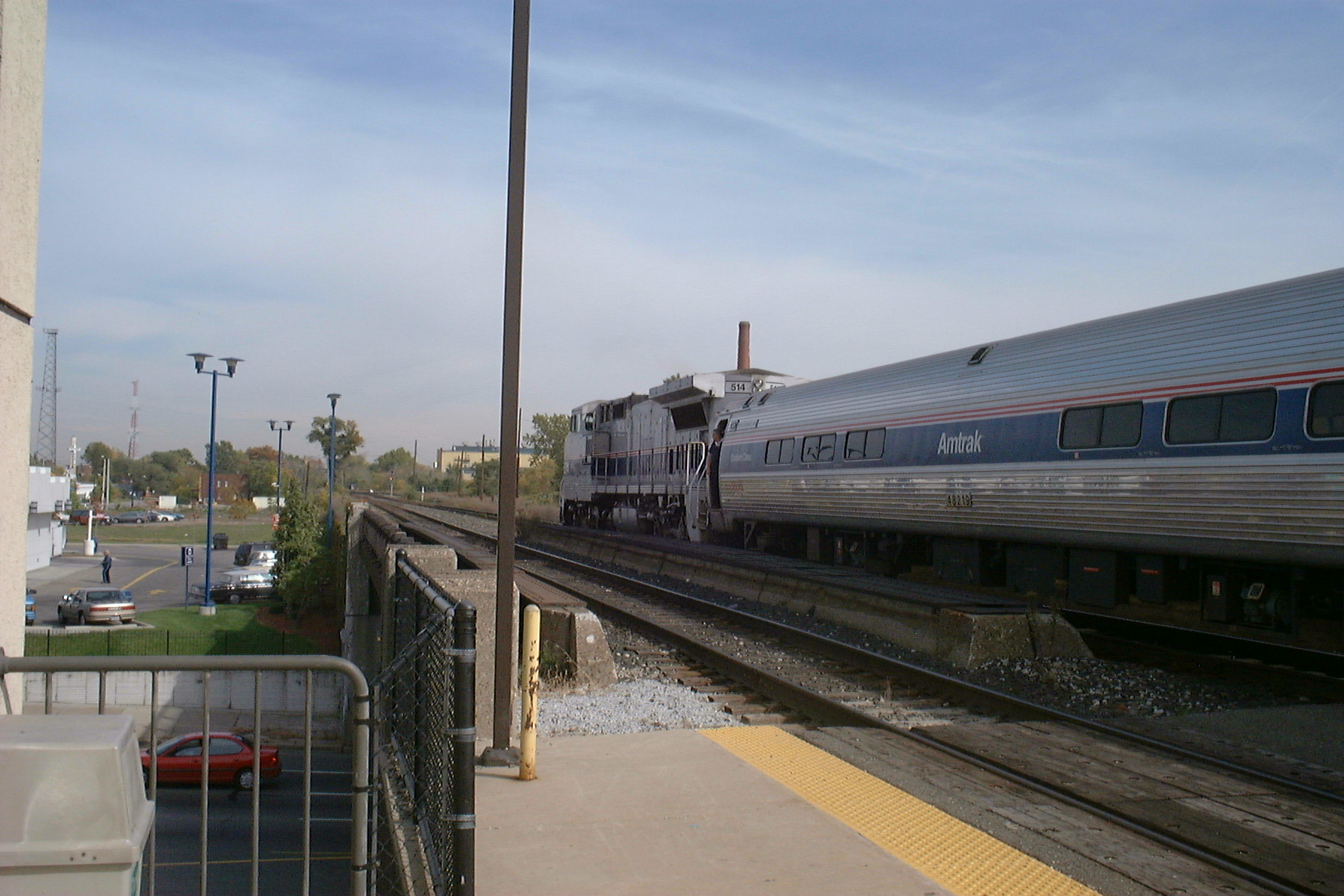 Detroit's Amtrak station, built in 1988.